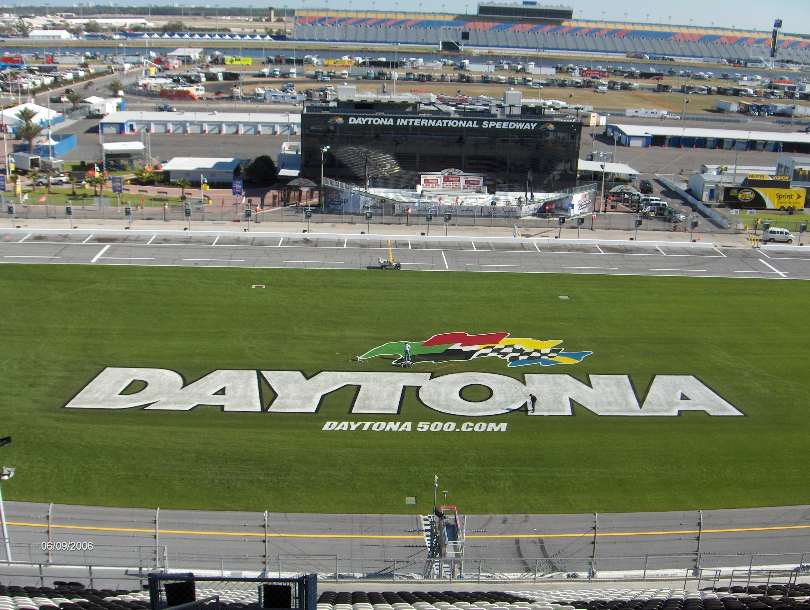 Looking across the Daytona International Speedway's frontstrech.